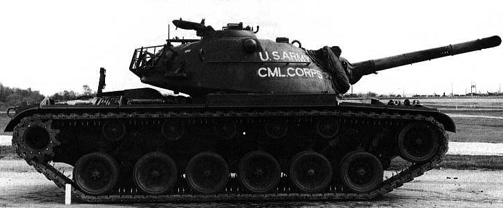 T67 (M67) flame thrower tank prototype at Aberdeen Proving Ground